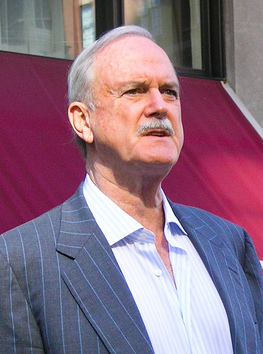 John Cleese in May 2008.